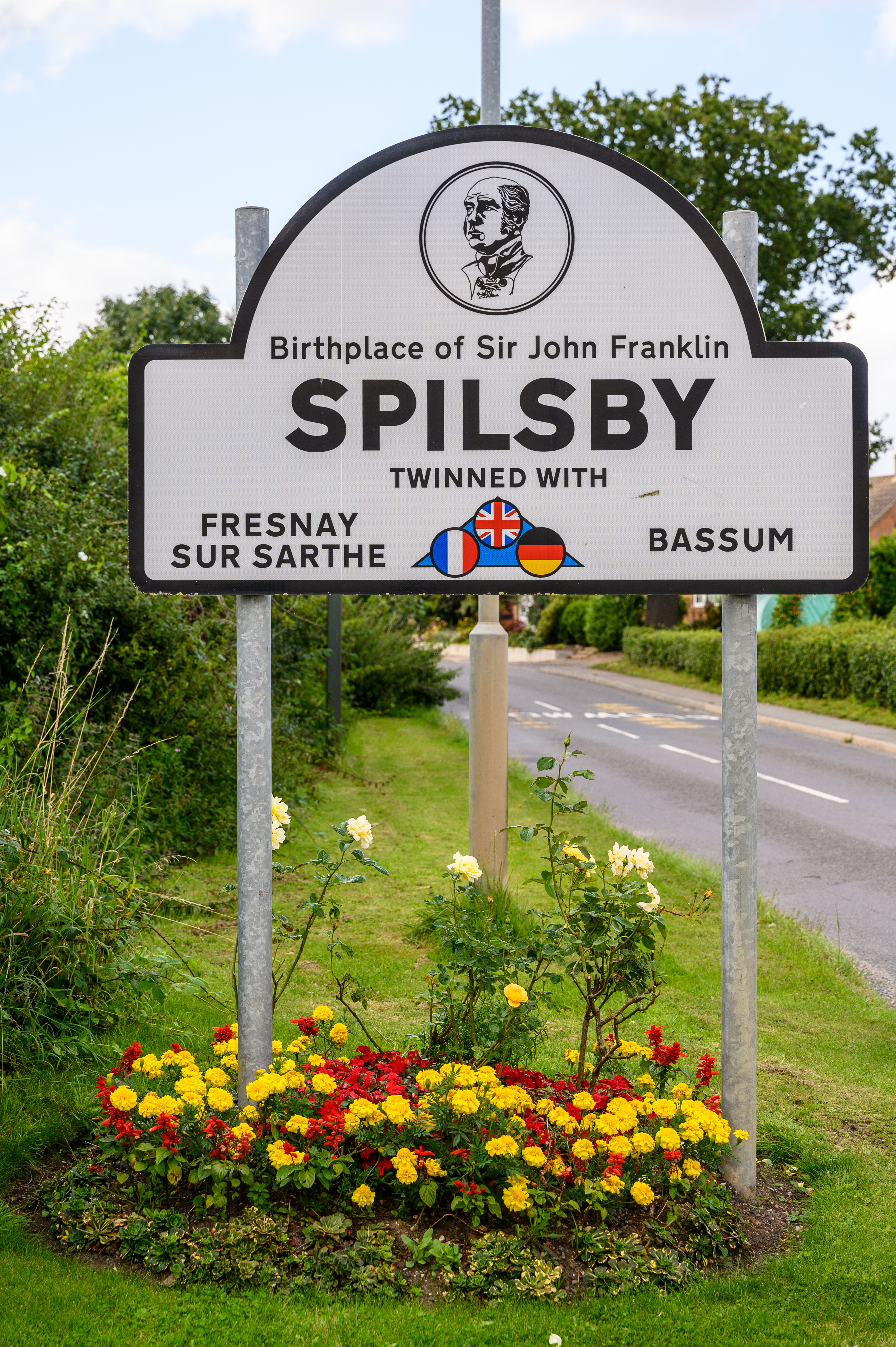 Town entrance Spilsby/England